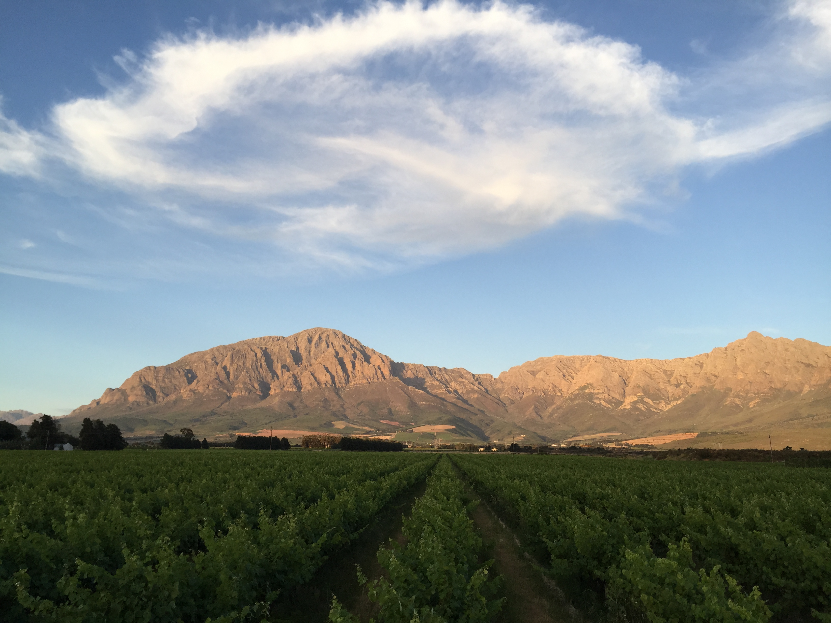 View from a farm in the Breedekloof